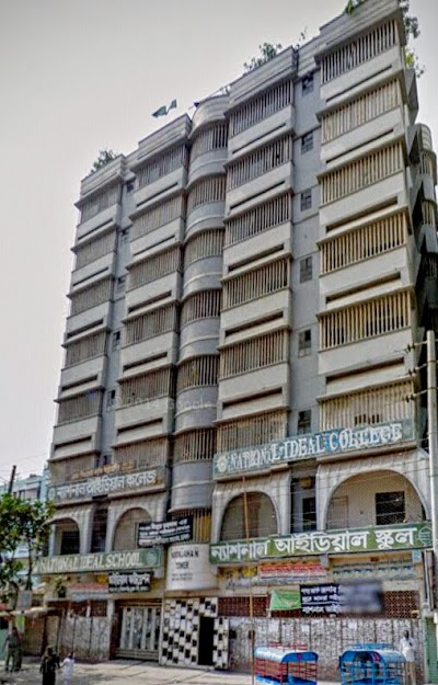 Main building of National Ideal College, as of 2017